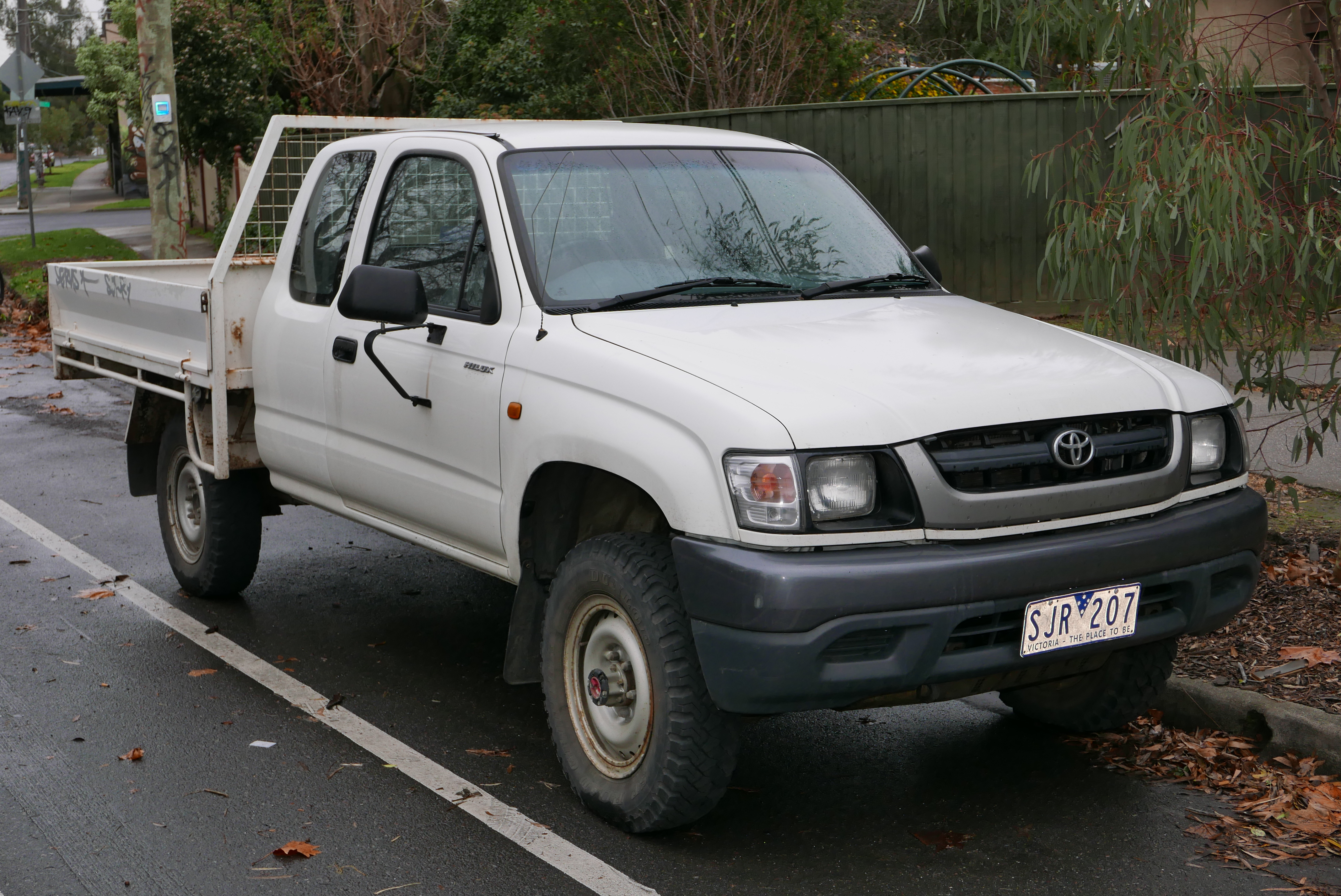 2003 Toyota HiLux (LN172R MY02) Xtra Cab 2-door cab chassis. Photographed in Alphington, Victoria, Australia. Vehicle registration enquiry results Jurisdiction Victoria Registration SJR207 Chassis code JTFWK726800006165 Engine code 5L9135839 Compliance date 2003-06 Year of manufacture 2003